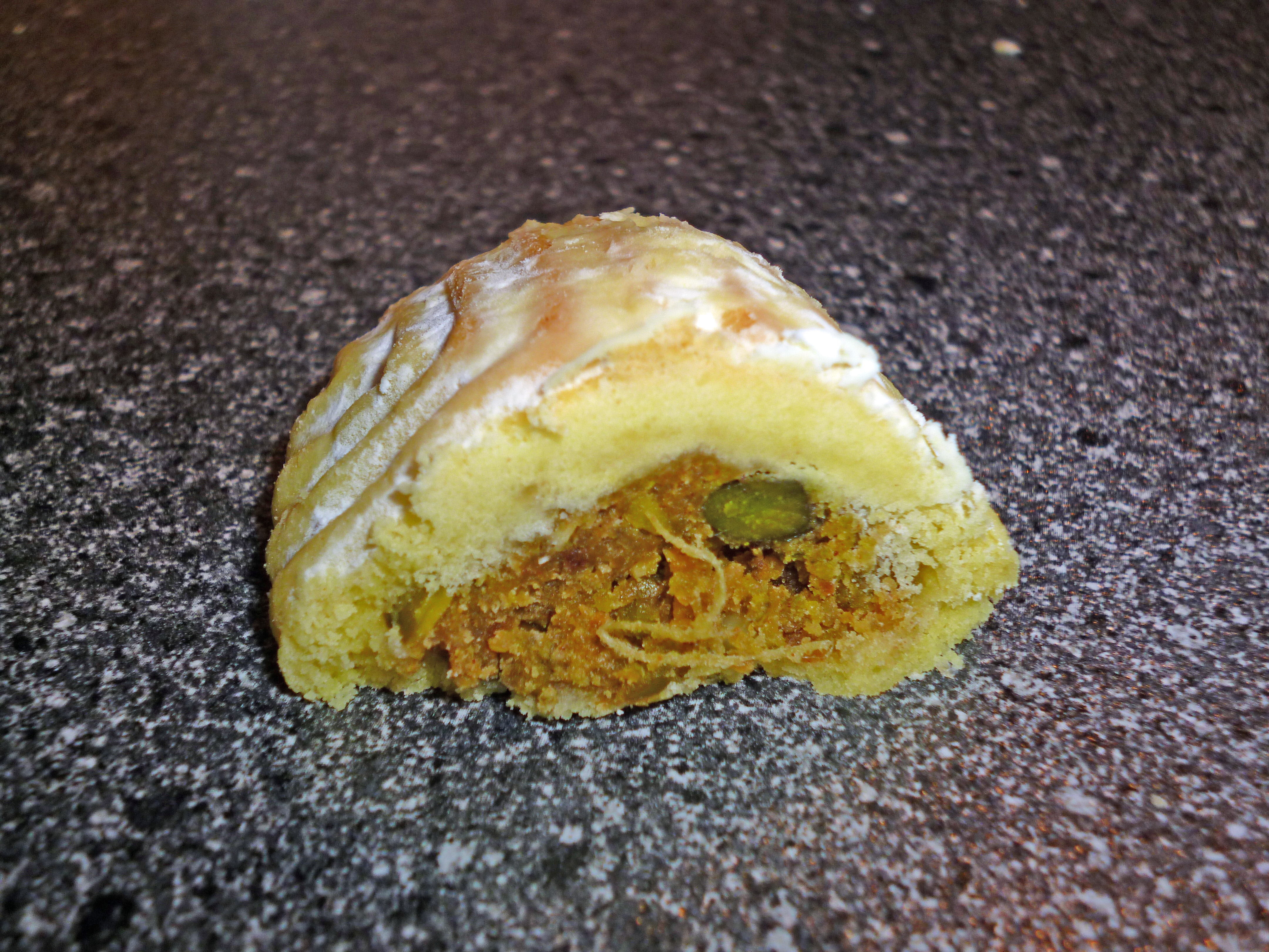 Maamoul cut in half